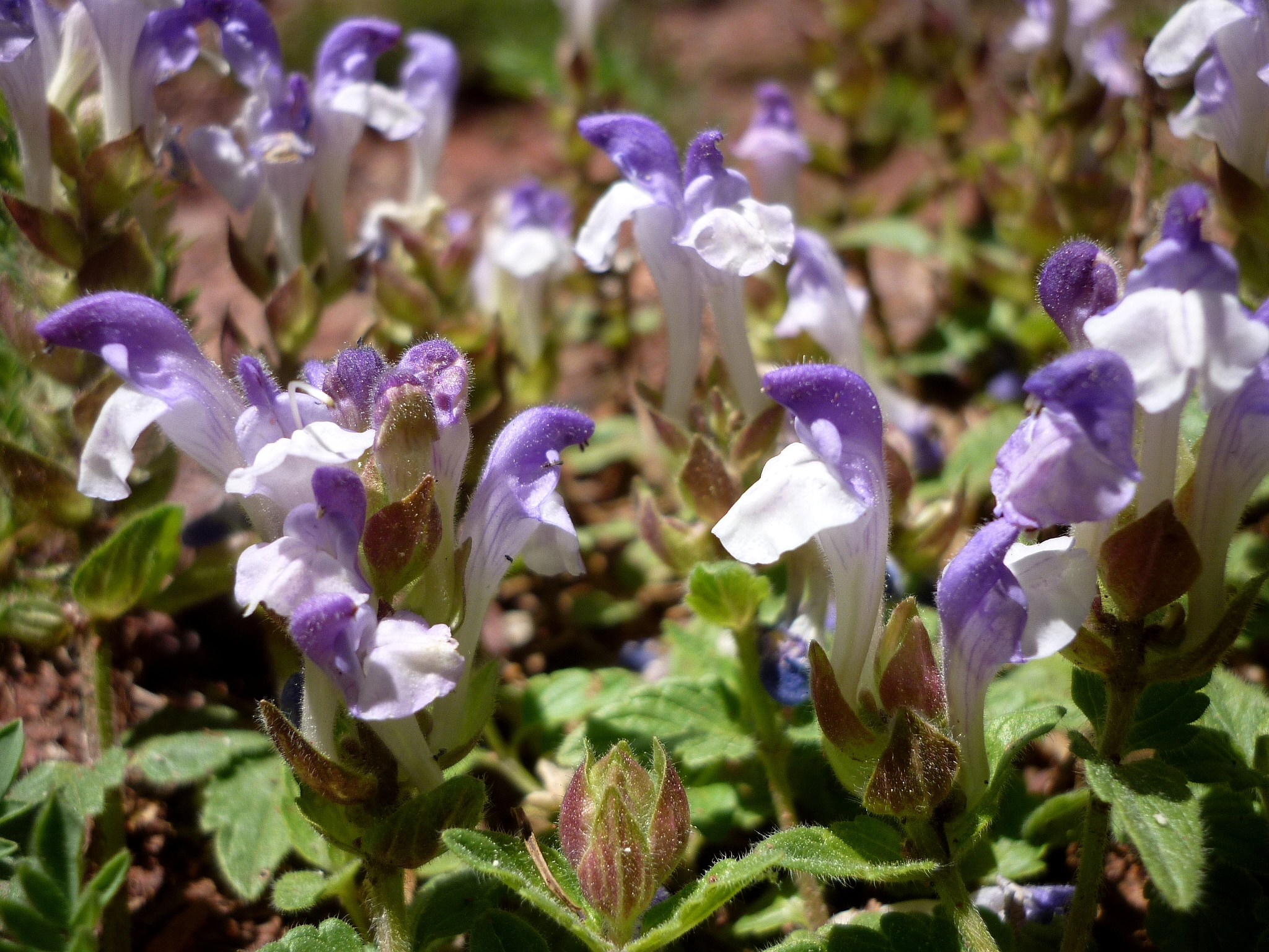 Scutellaria alpina. In Estana (Baixa Cerdanya-Catalunya). To 1.780 m. altitude